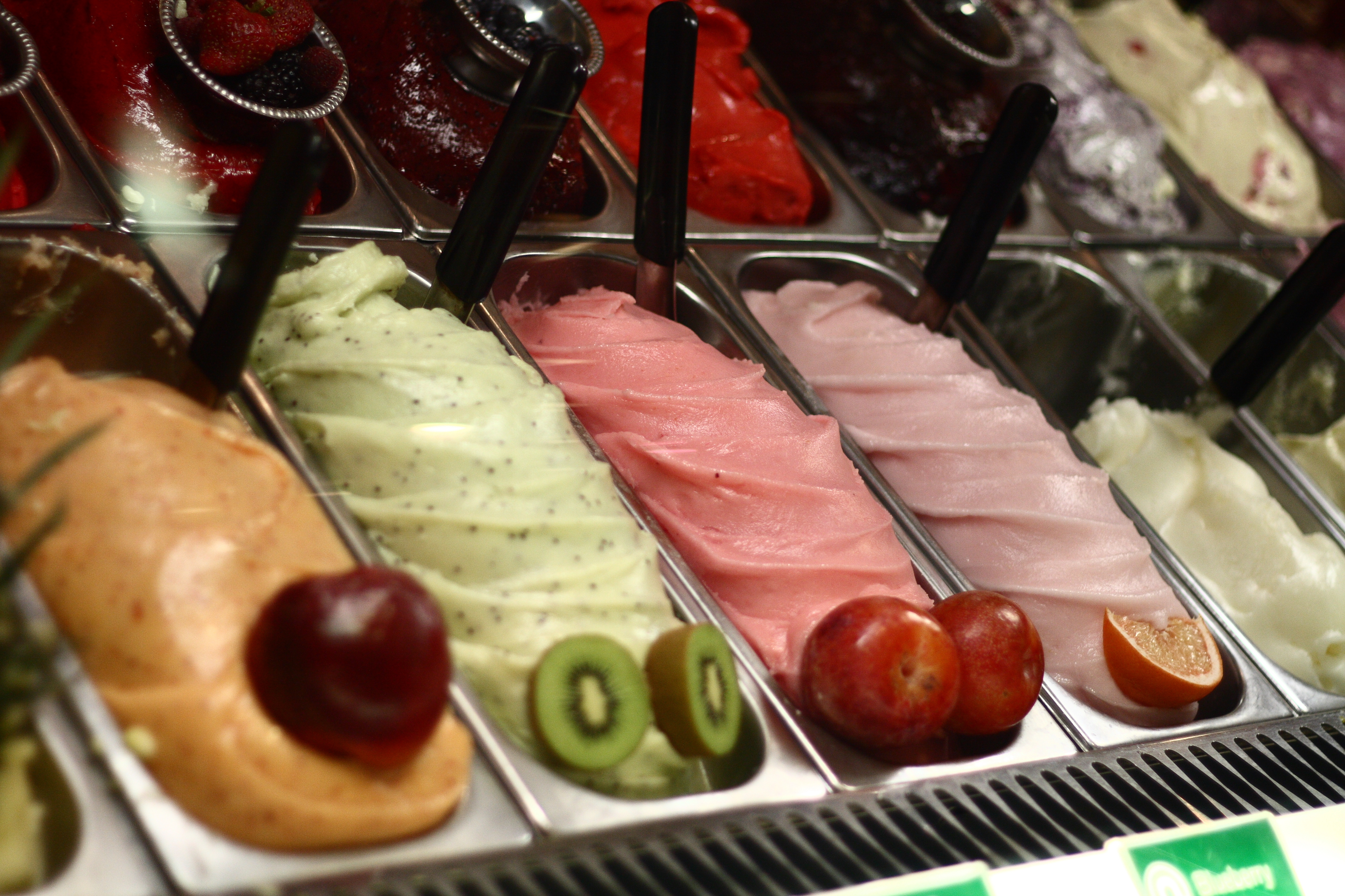 Several flavors of sorbetto, including nectarine, kiwi, pluot, and grapefruit, from Gelato Naia at 520 Columbus Avenue in San Francisco